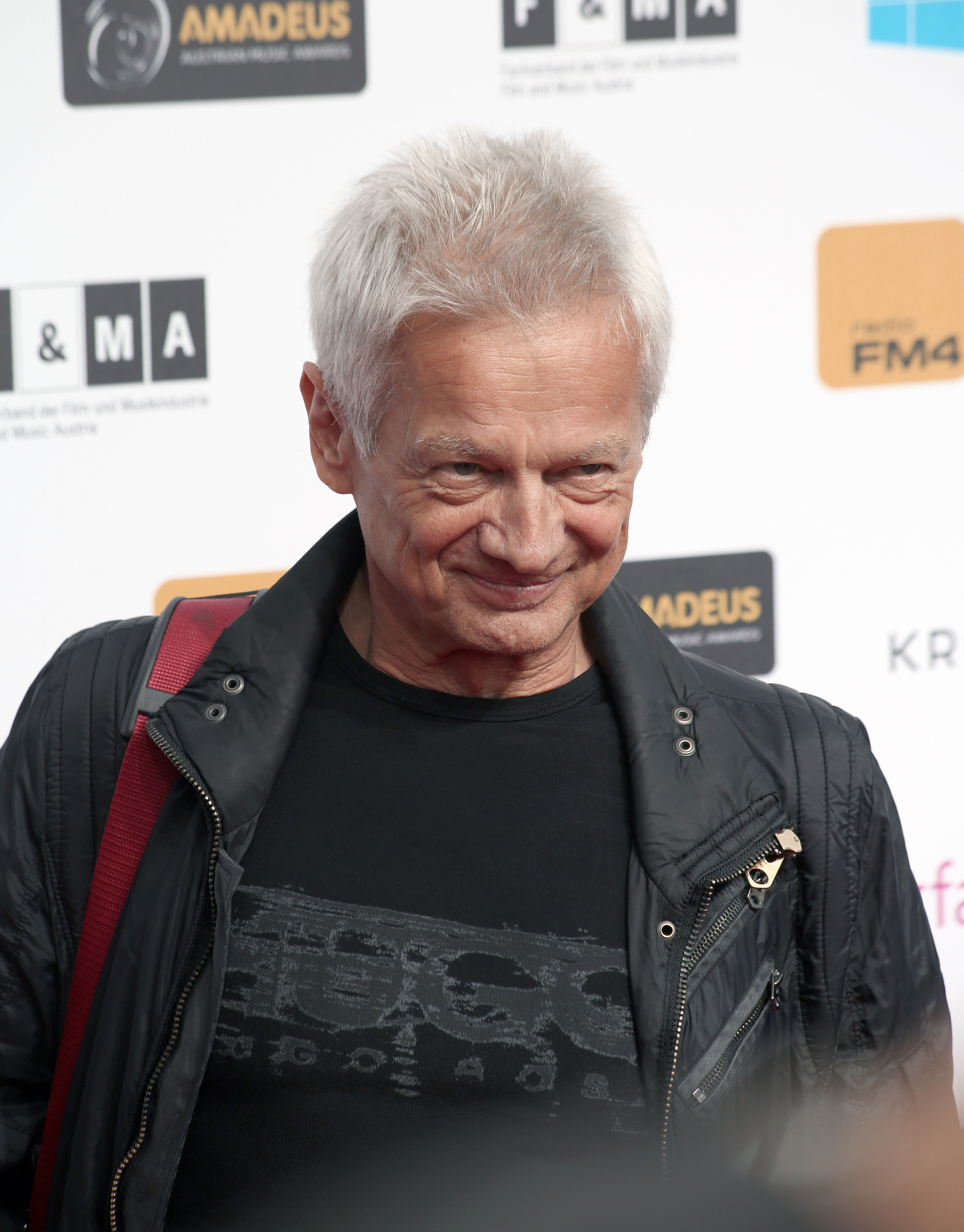 Boris Bukowski at the Amadeus Austrian Music Award 2014 at Volkstheater in Vienna